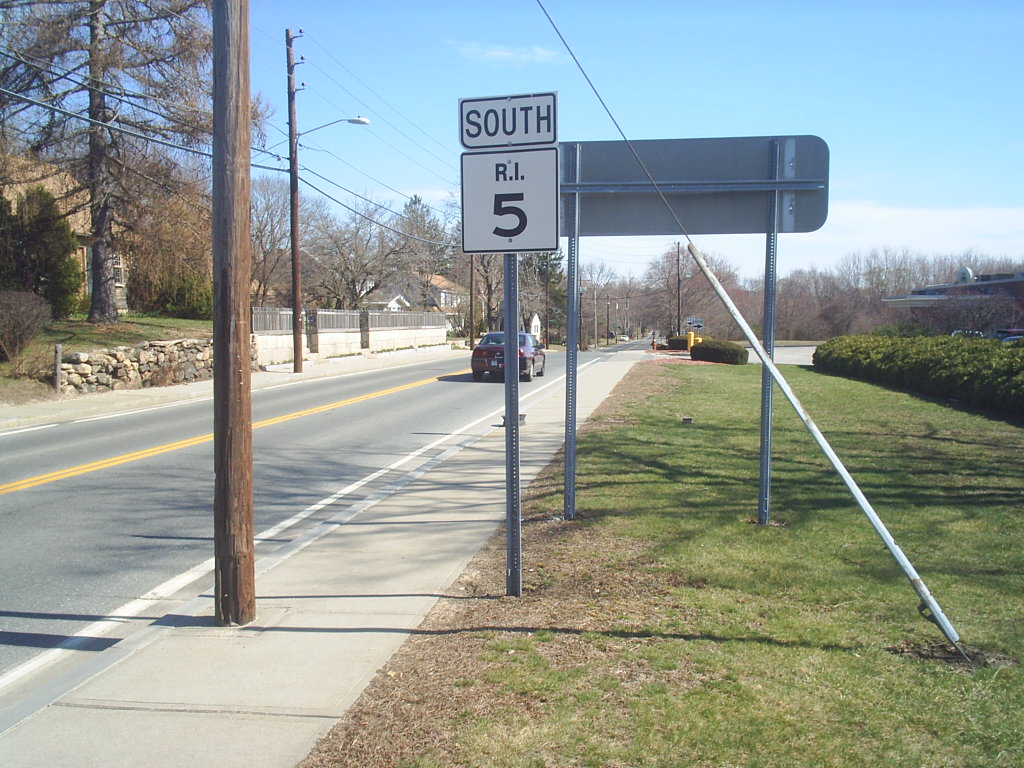 Rhode Island Route 5 southbound reassurance shield on North Main Street just past the junction with Victory Highway (Rhode Island Route 102), North Smithfield, Providence County, Rhode Island, United States.